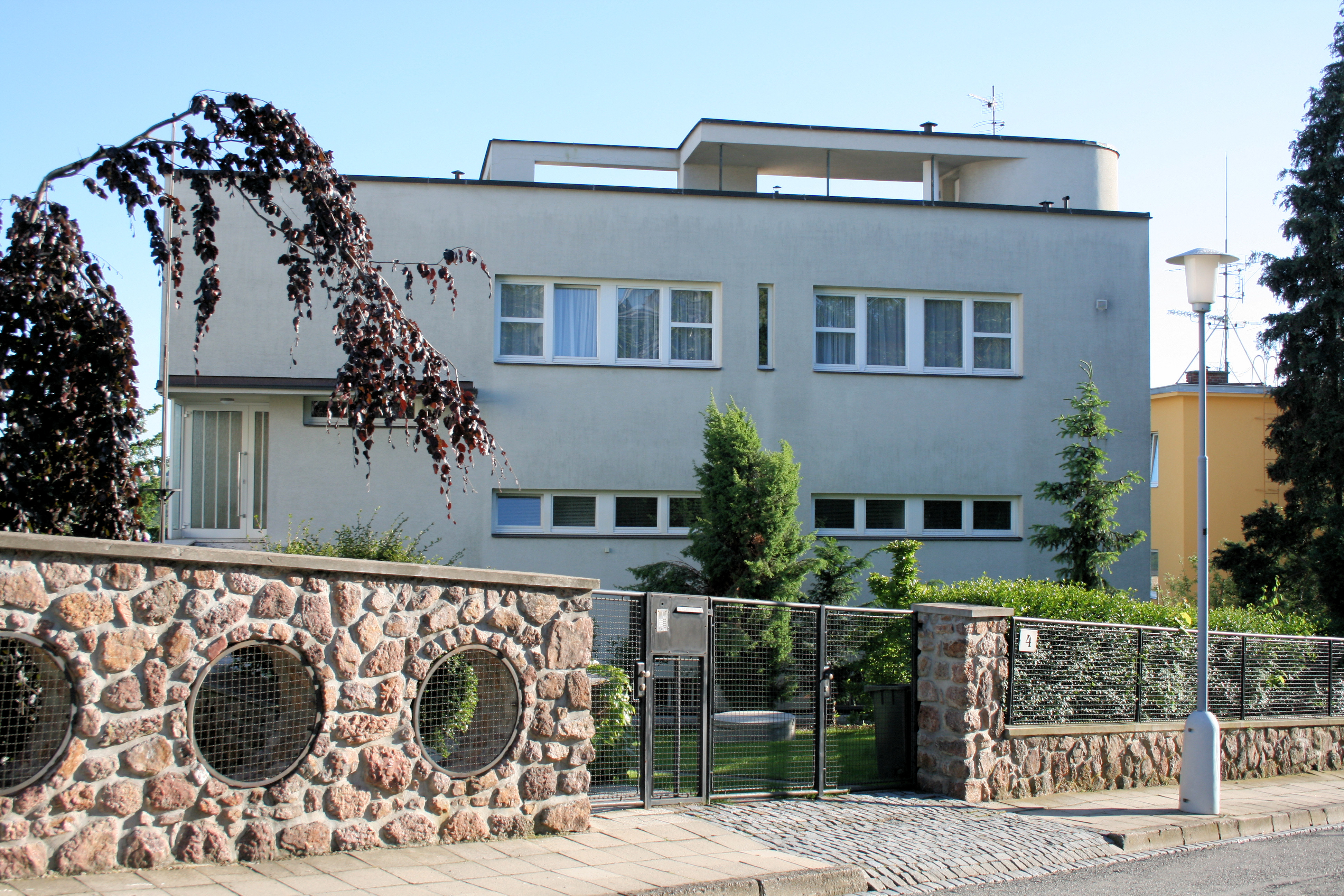 Villa Petrák, Brno, Czech Republic. Functionalist villa by Bohuslav Fuchs. Česky: Petrákova vila, postavená architektem Bohuslavem Fuchsem v roce 1936. Marie Pujmanové 4, Brno (Pisárky). Celkový čelní pohled z ulice.